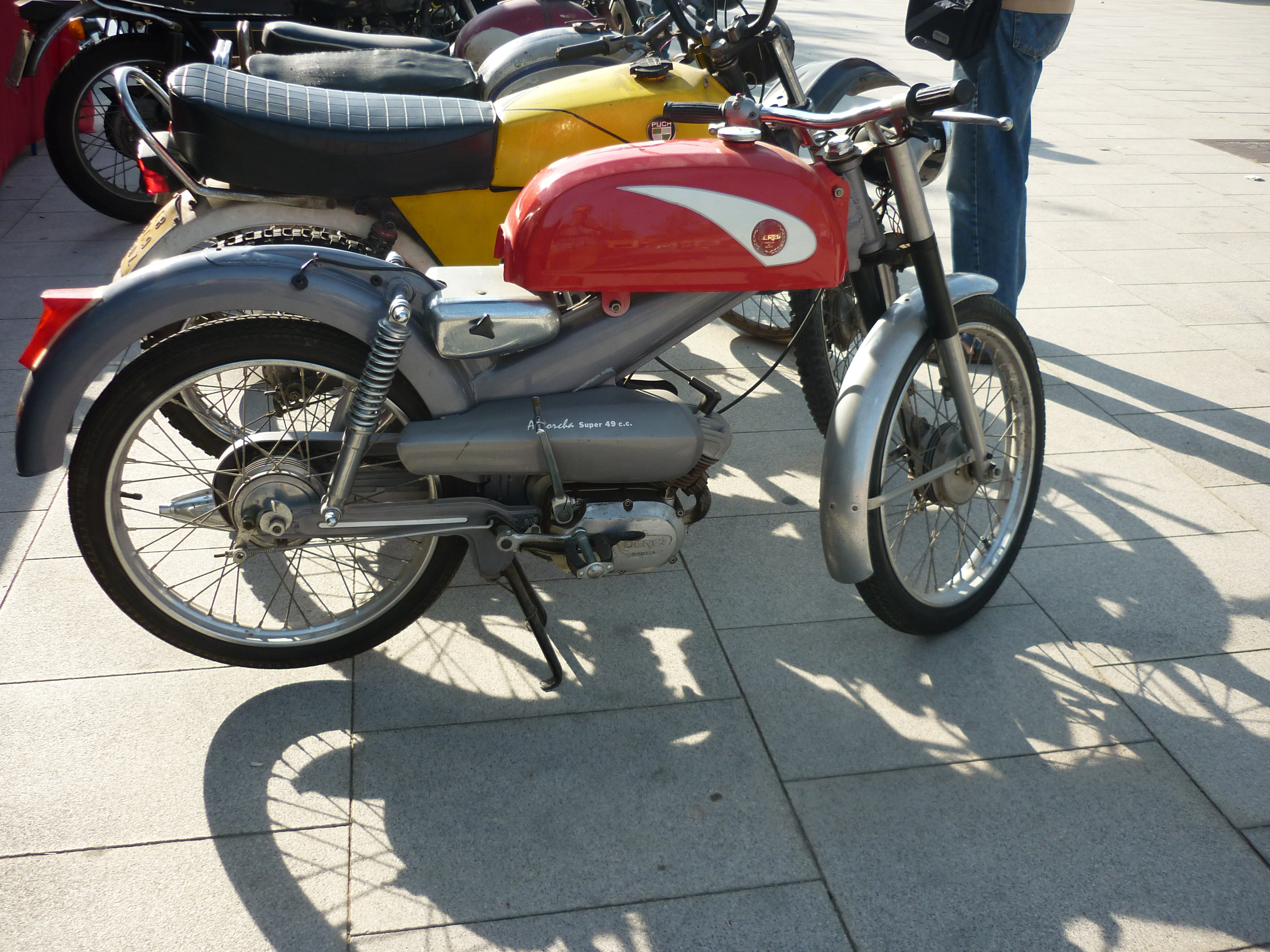 Derbi Antorcha Super 49cc by 1970